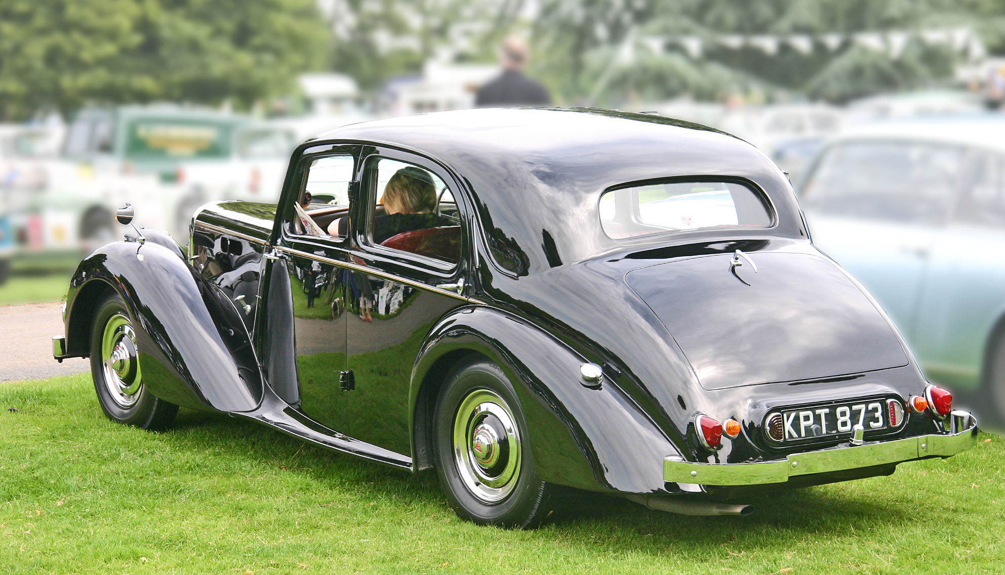 1949 Alvis TA 14 Raine Saloon (H Raine of Spennymoor County Durham)(DVLA) first registered 5 July 1949 Believed to be the only one left in existence out of 2 saloons and 2 vans. Still owned by the Raine family Left Alvis factory 12 February 1948 Chassis No.21865